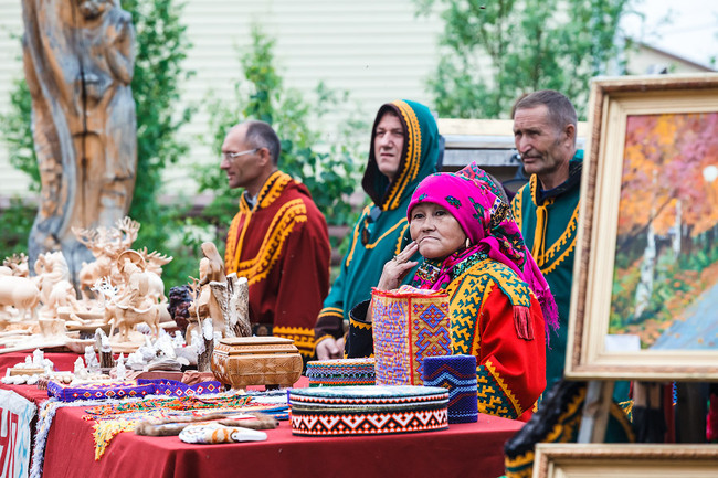 Selkup camp Nyary Mach "swampy tundra forest".